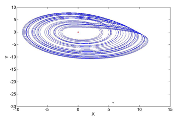 This PNG image was originally saved as JPEG, so the conversion to PNG only kept the compression artifacts of the original format. The image should be re-created and saved in a lossless format from start. Author: William Clayton